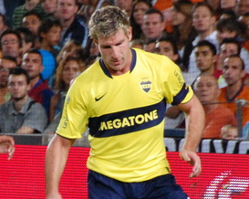 A photo of Martin Palermo, during Joan Gamper trophy 2008